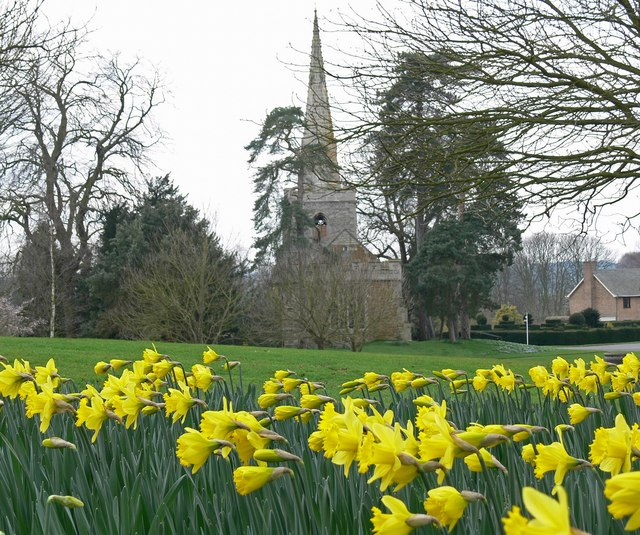 Parish church of St Michael and All Angels, Brooksby, Leiecstershire, seen from the east